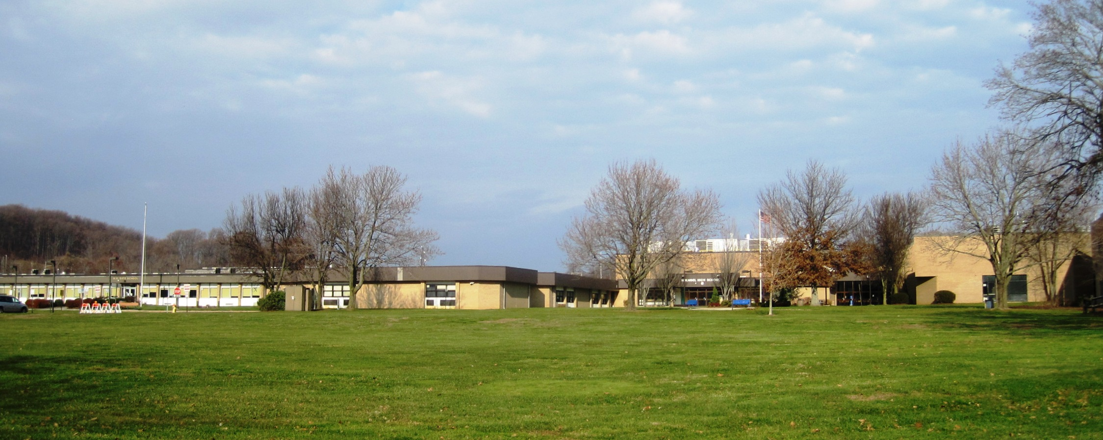 Photo showing the front of Holmdel High School in Holmdel Township, New Jersey.